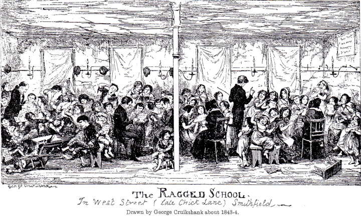 Cruikshank represents a ragged school at the Saffron Hill slum in London, which Charles Dickens visited on behalf of philanthropist Angela Burdett Coutts in 1843. This visit undoubtedly shaped his conception of Ignorance and Want — and the importance of elementary education as an antidote to poverty — in A Christmas Carol). (Philip V. Allingham)